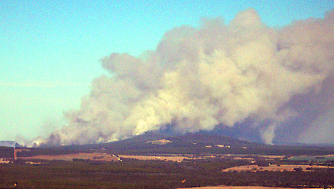 Fire in Porongurup National Park, Western Australia, as seen from Mount Barker Hill, February 11th, 2007. Photo by Andy Dolphin.